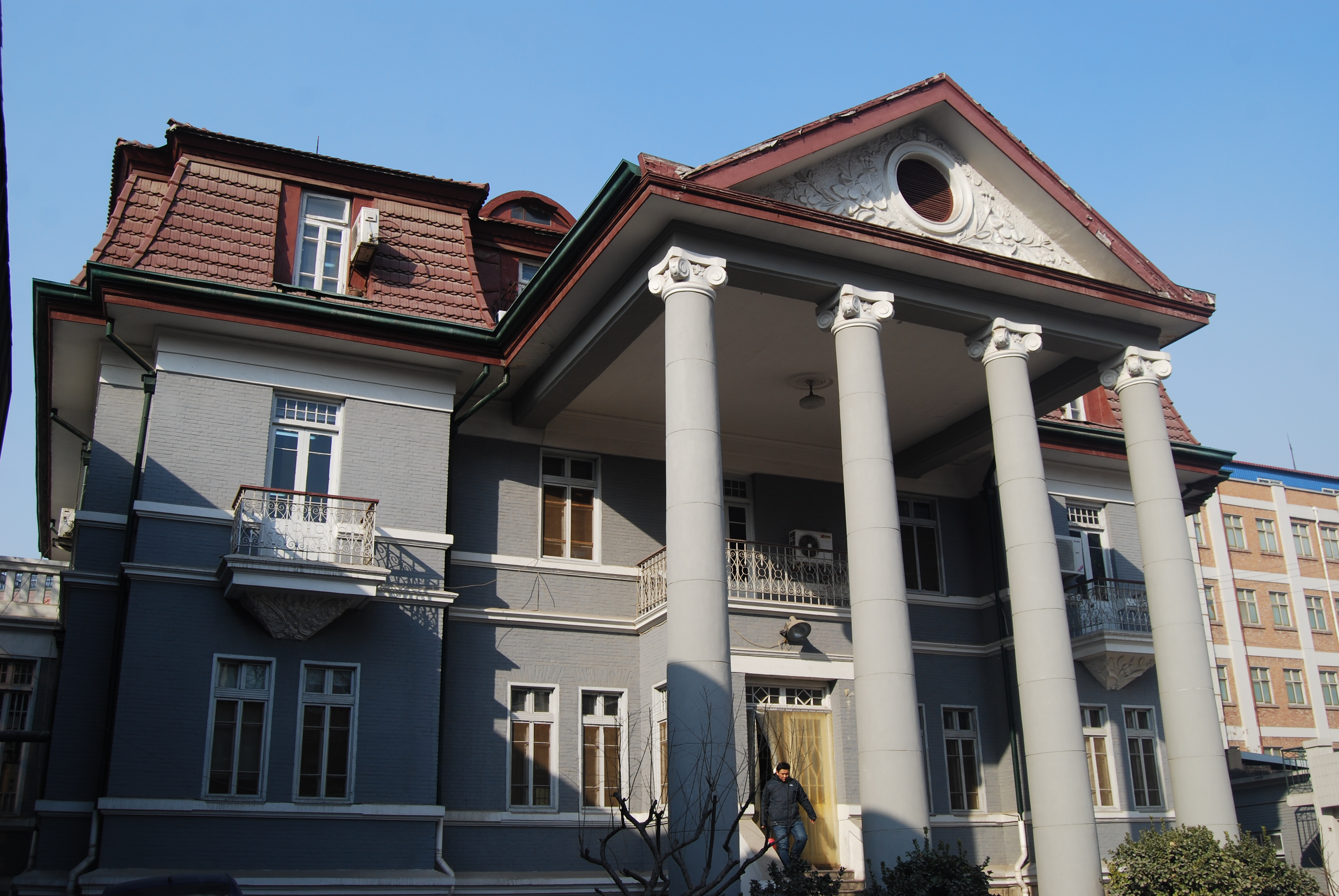 The Former Residence of Tian ZhongYu (田中玉, 1869–1935) in Yingkou Dao No. 42, Heping District, Tianjin